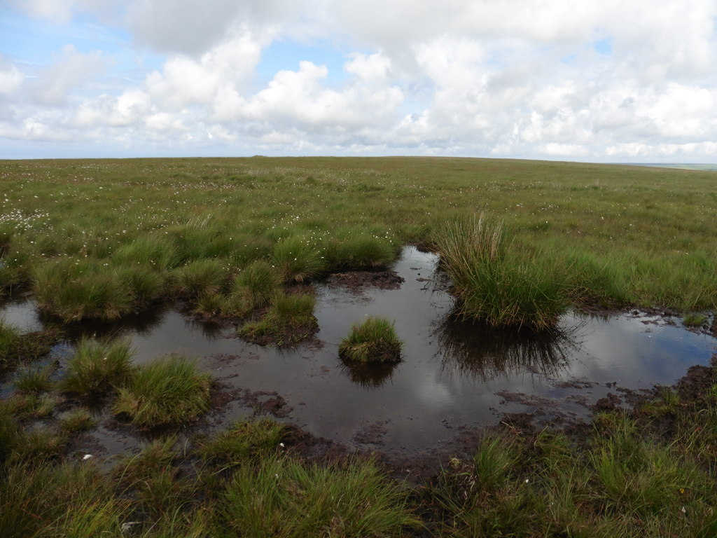 One of many small ponds on the Chains plateau